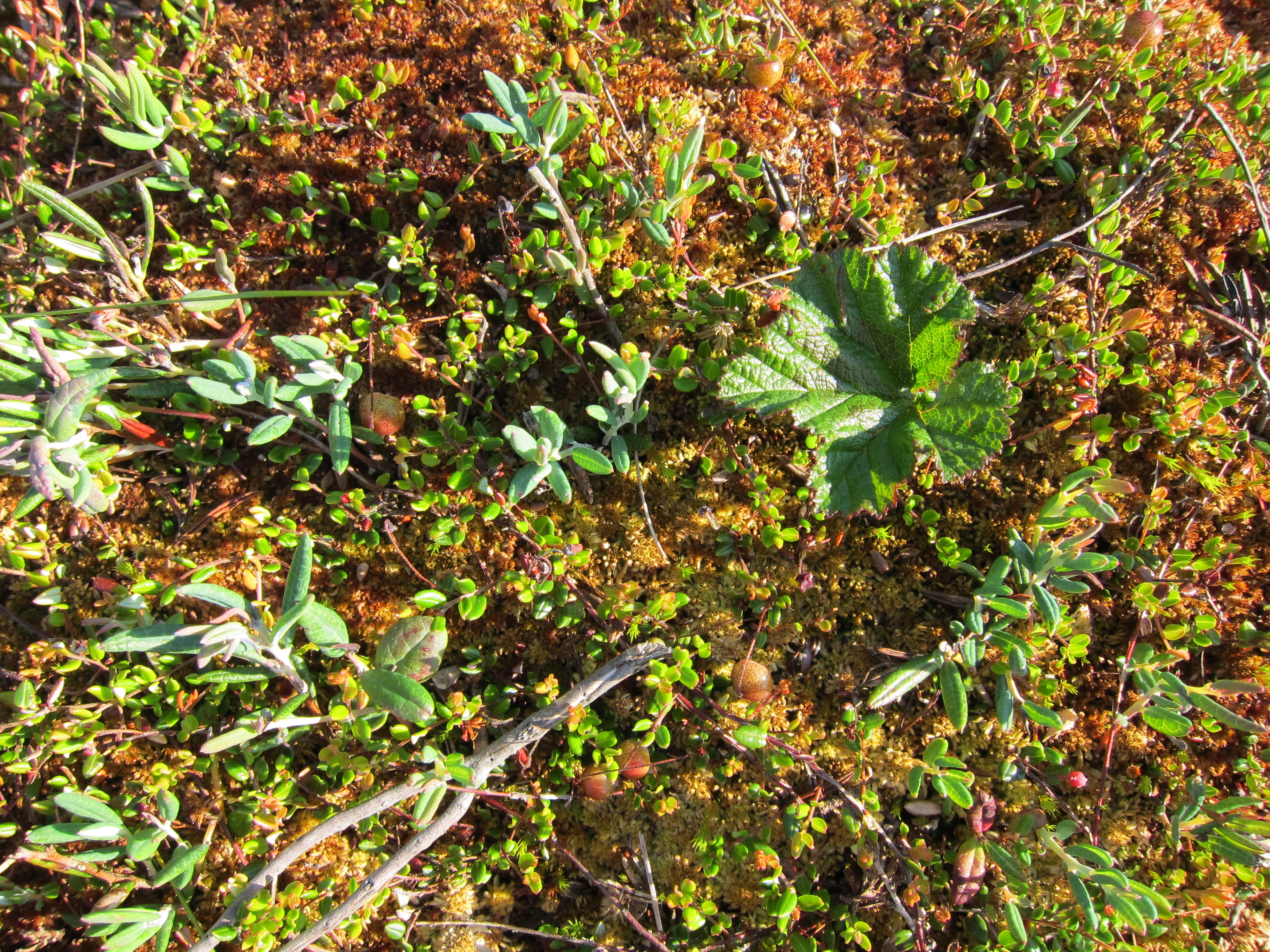 Vaccinium oxycoccos (Common Cranberry or Northern Cranberry) and Rubus chamaemorus (cloudberry, bakeapple) in the Pomponrahka. Pomponrahka became protected under the Nature Conservation Act in 1983 and it is part of a national mire protection programme. The mire complex, approximately 70 hectares in area, consists of the Isosuo-bog located further North, and Pomponrahka-bog further south. Pomponrahka is located in the south-west of Finland, city of Turku.